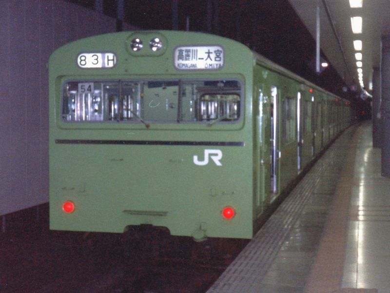 JR East 103-3000 series 3-car EMU set 54 at Omiya Station on a Kawagoe Line service